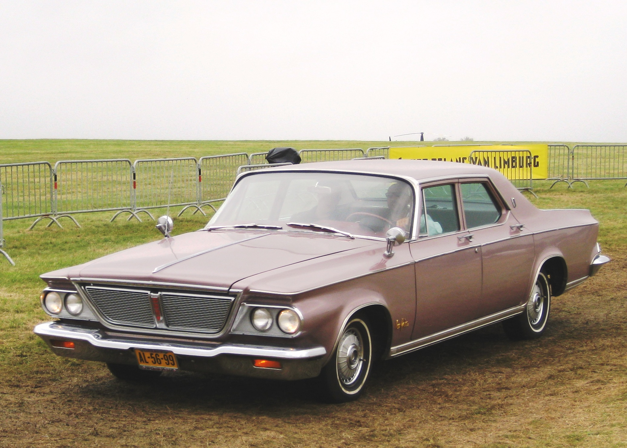 Chrysler New Yorker (1965) in Vlaams-Brabant